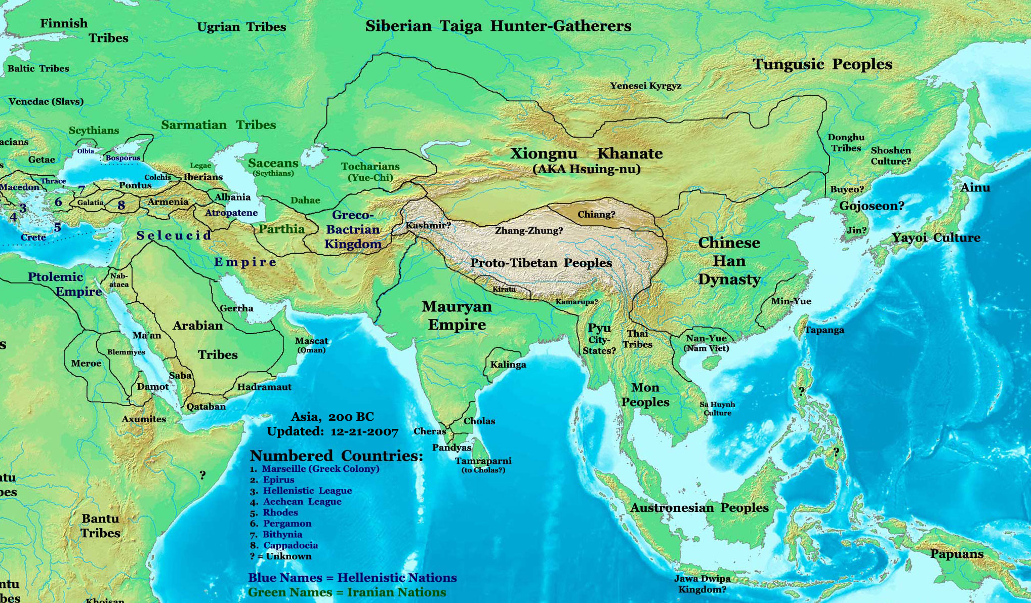 This image is a zoomed-in version of Eastern Hemisphere in 200 BC. Eastern Hemisphere in 200 BC.